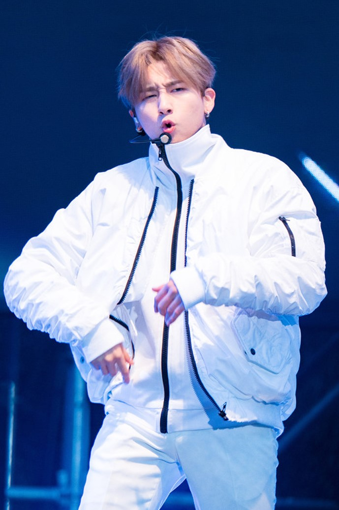 I.M at Old School Public Broadcasting on October 9, 2016.